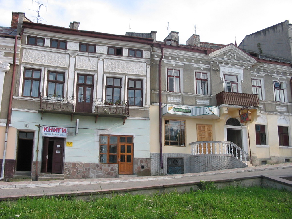 Old houses in Berezhany center, Berezhany, western Ukraine